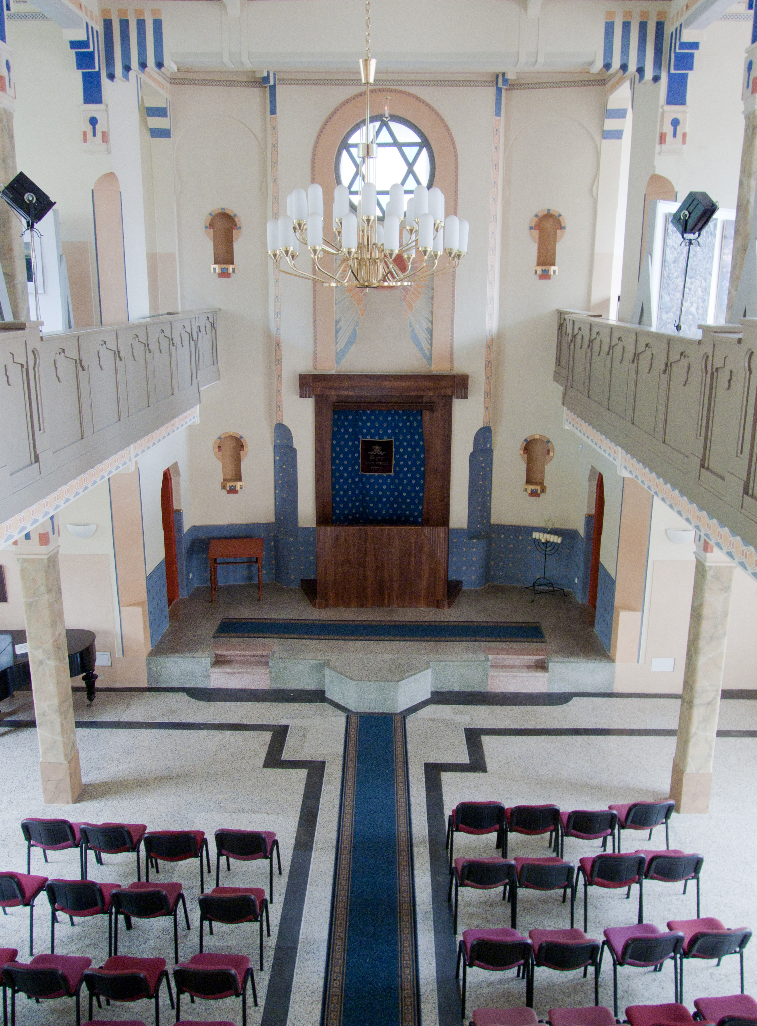 View from the gallery of the Děčín synagogue, Czech Republic